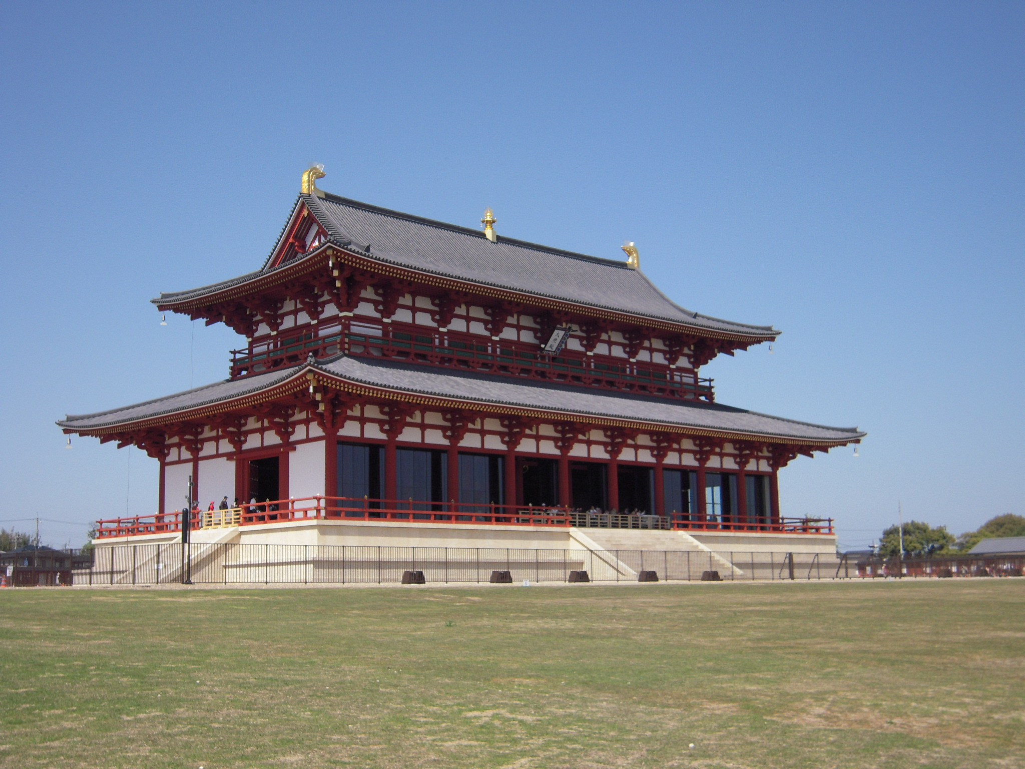 Rebuilded Daigokuden in the site of Heijō Palace